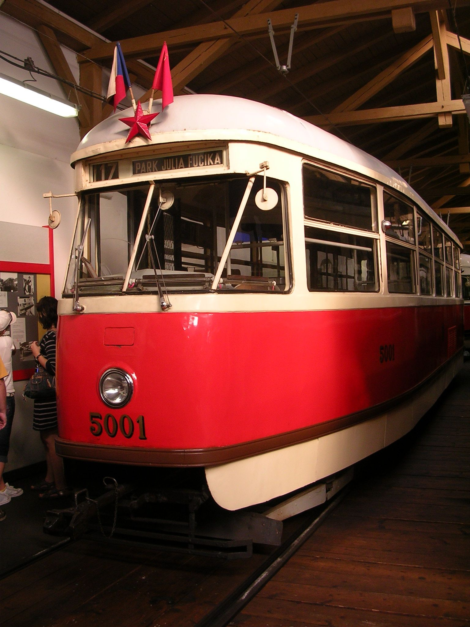 Střešovice, Prague, the Czech Republic. A historical tram Tatra T1.